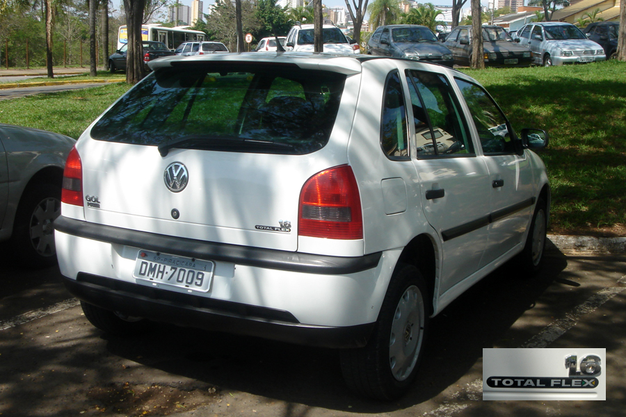 Brazilian 2003 Volkswagen Gol 1.6 total Flex, the first modern flexible-fuel automobile commercially available, capable of running on any blend of E20 gasohol and pure hydrous ethanol (E100).